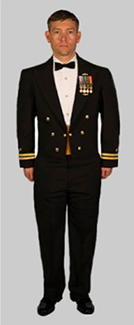 Illustration of US Navy officer's blue dinner dress.